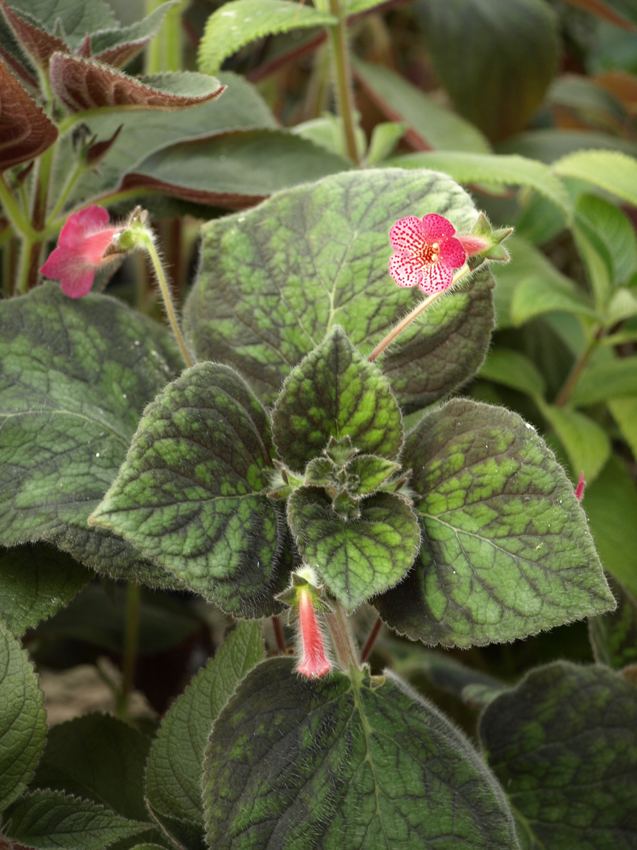 Florida International University greenhouse, Miami, FL